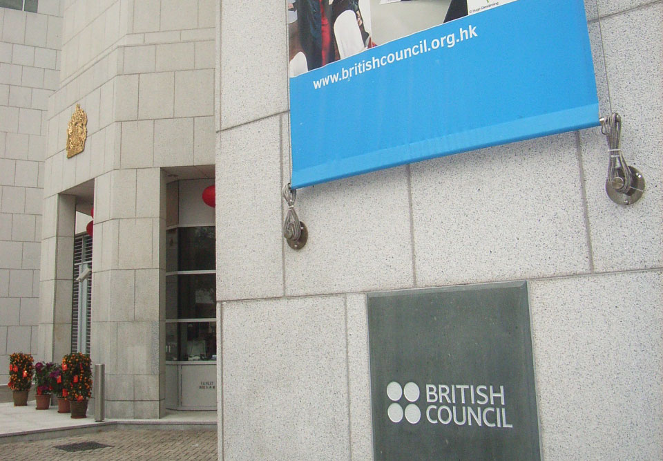 英國文化協會, British Council